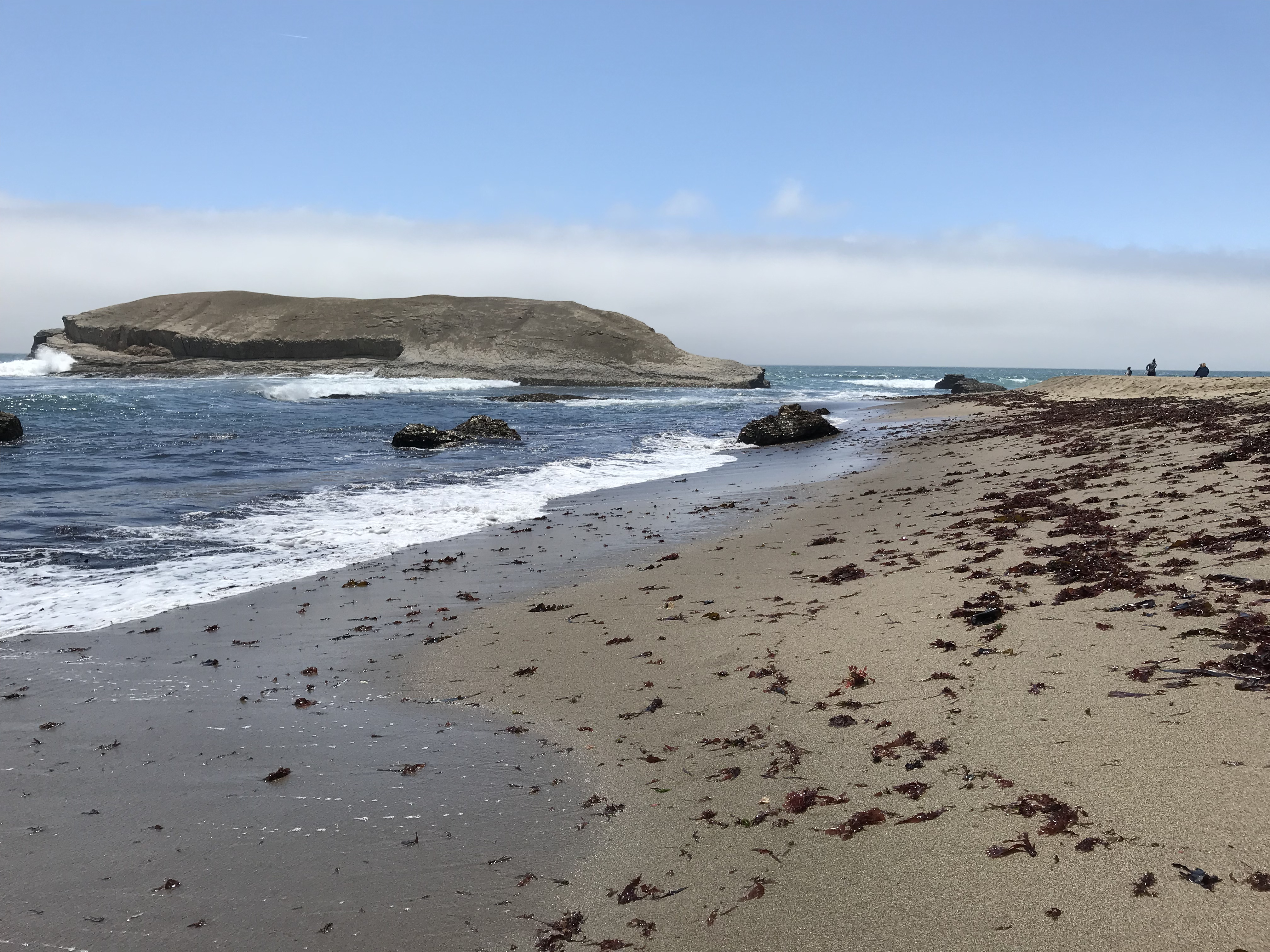 Greyhound Rock Beach in Davenport, Santa Cruz County, California. The beach is part of the Greyhound Rock State Marine Conservation Area.